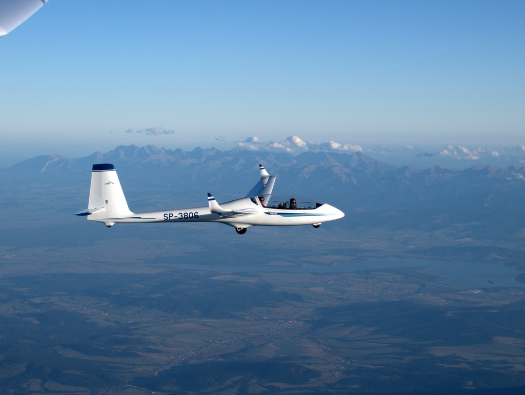 Glider SZD-54 Perkoz over Tatra Mountains